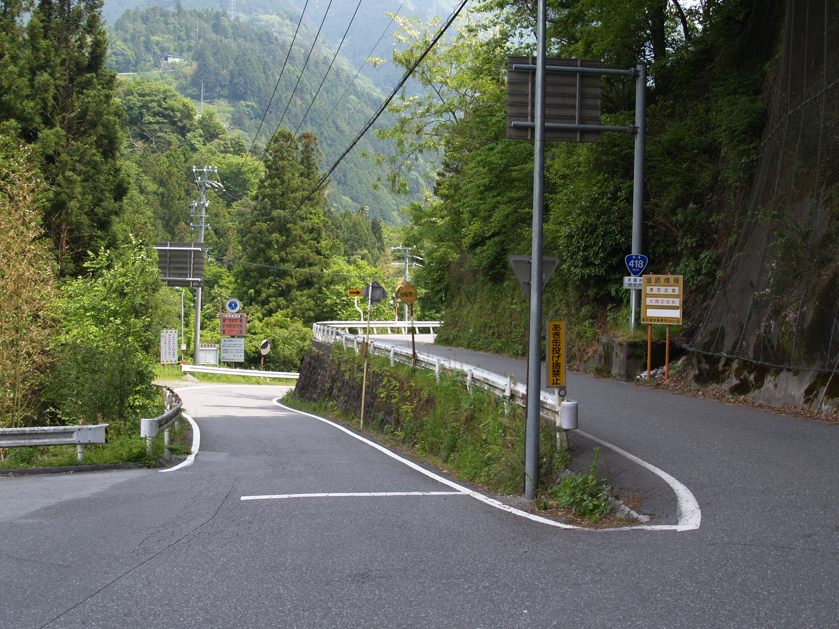 The National Route 418 and the Nagano Prefectural Road, Aichi Prefectural Road and Shizuoka Prefectural Road Route 1 on the west of Ina-Kozawa Station in Tenryu Village, Nagano Prefecture